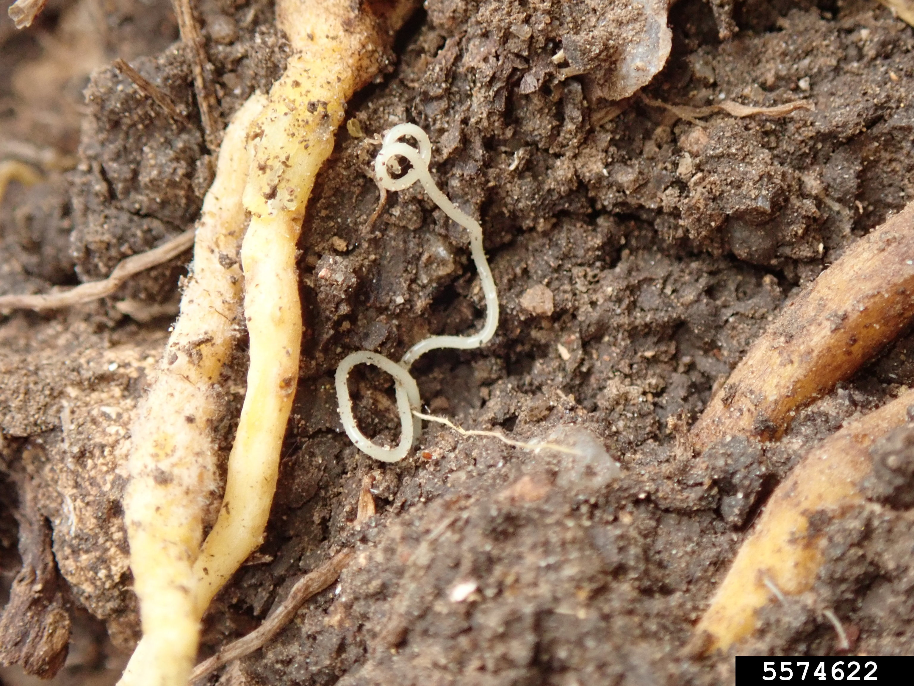 Mermis nigrescens. Dormant adult found in soil in late September. (Dauerlarva)